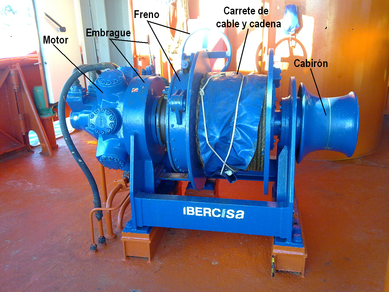 Chigre